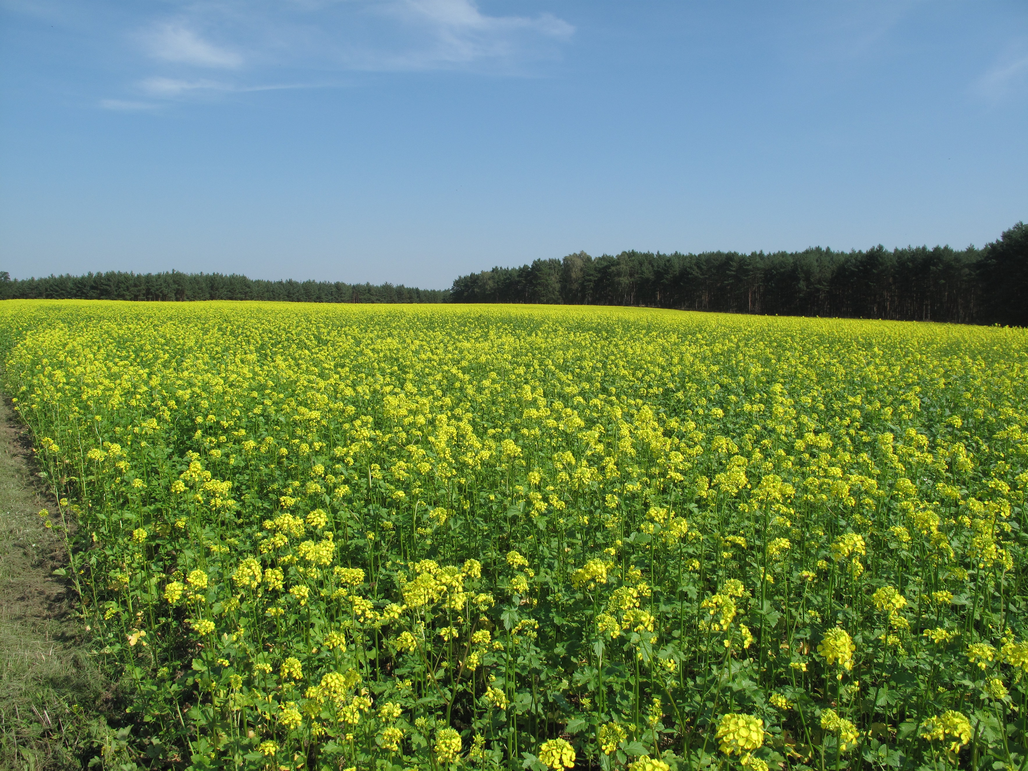 Rapeseed in Werder, part of the municipality Tauche in the District Oder-Spree, Brandenburg, Germany.